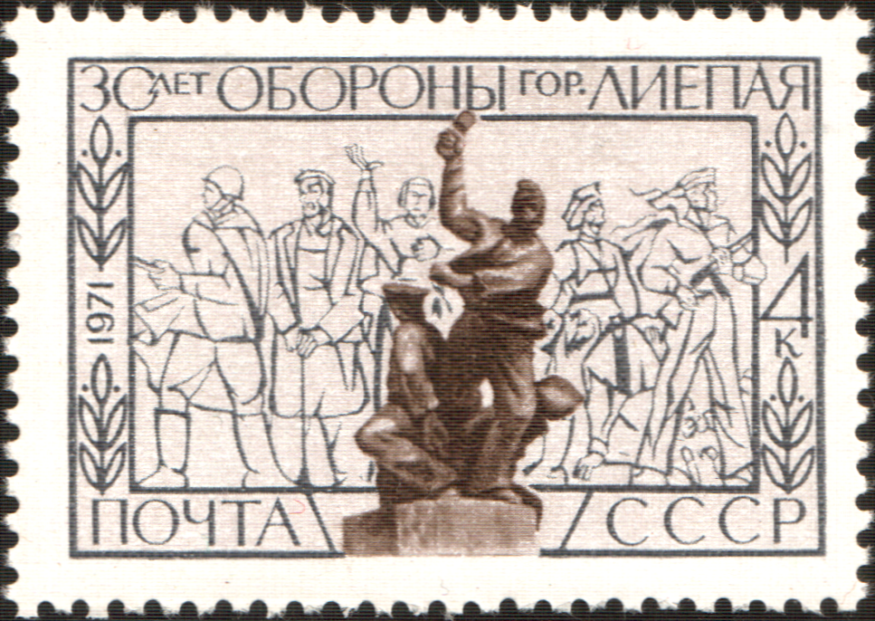 USSR stampː Monument to the Defenders of Liepāja (Libava) (E. Guirbulis). Seriesː 30th Anniversary of the defense of Liepāja (Libava), Latvia, against invading Germans